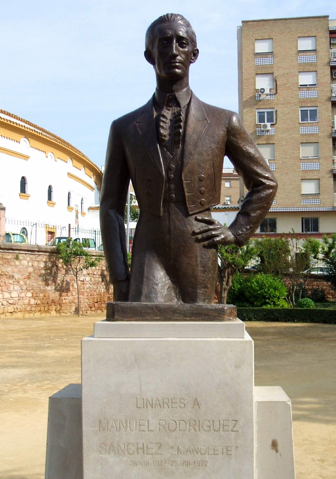 Monumento a Manolete frente a la plaza de Toros de Linares (Jaén, Andalucía, España)